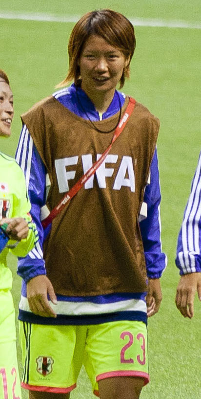 FIFA Women's World Cup Canada June 12th, 2015